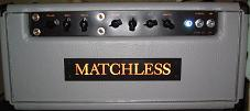 Guitar amplifier An all tube Matchless HC-30 amplifier head driven by 4 EL84 power tubes, totaling an output of 30 watts. This is an original photograph taken by Paal Birger Solhaug on August 24 2005.